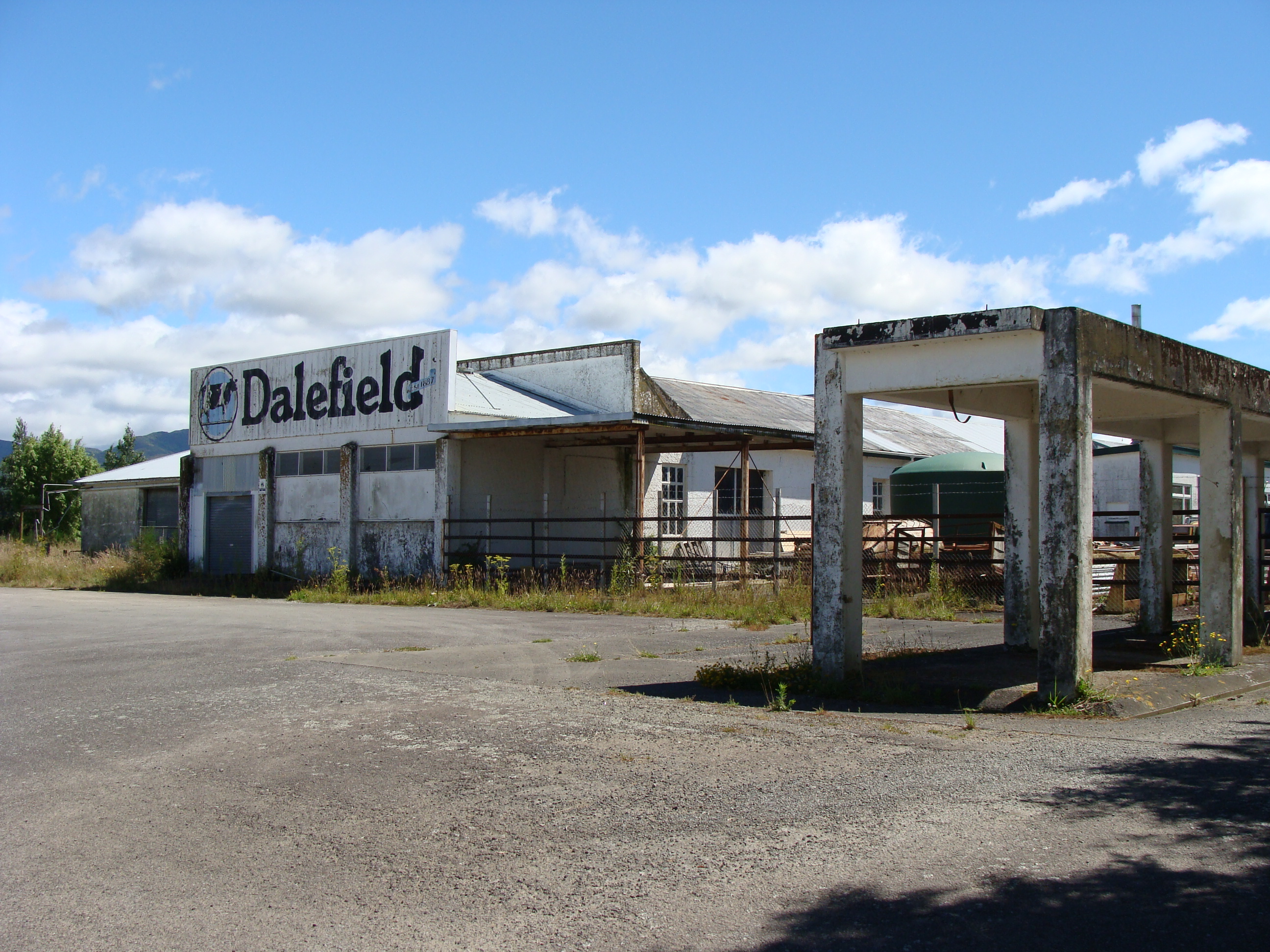 The old dairy factory buildings at Dalefield, near Carterton, New Zealand.